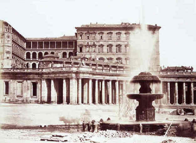 Pietro Dovizielli (1804-1885), "Fountain before St. Peter's and Vatican Palace" (Rome).